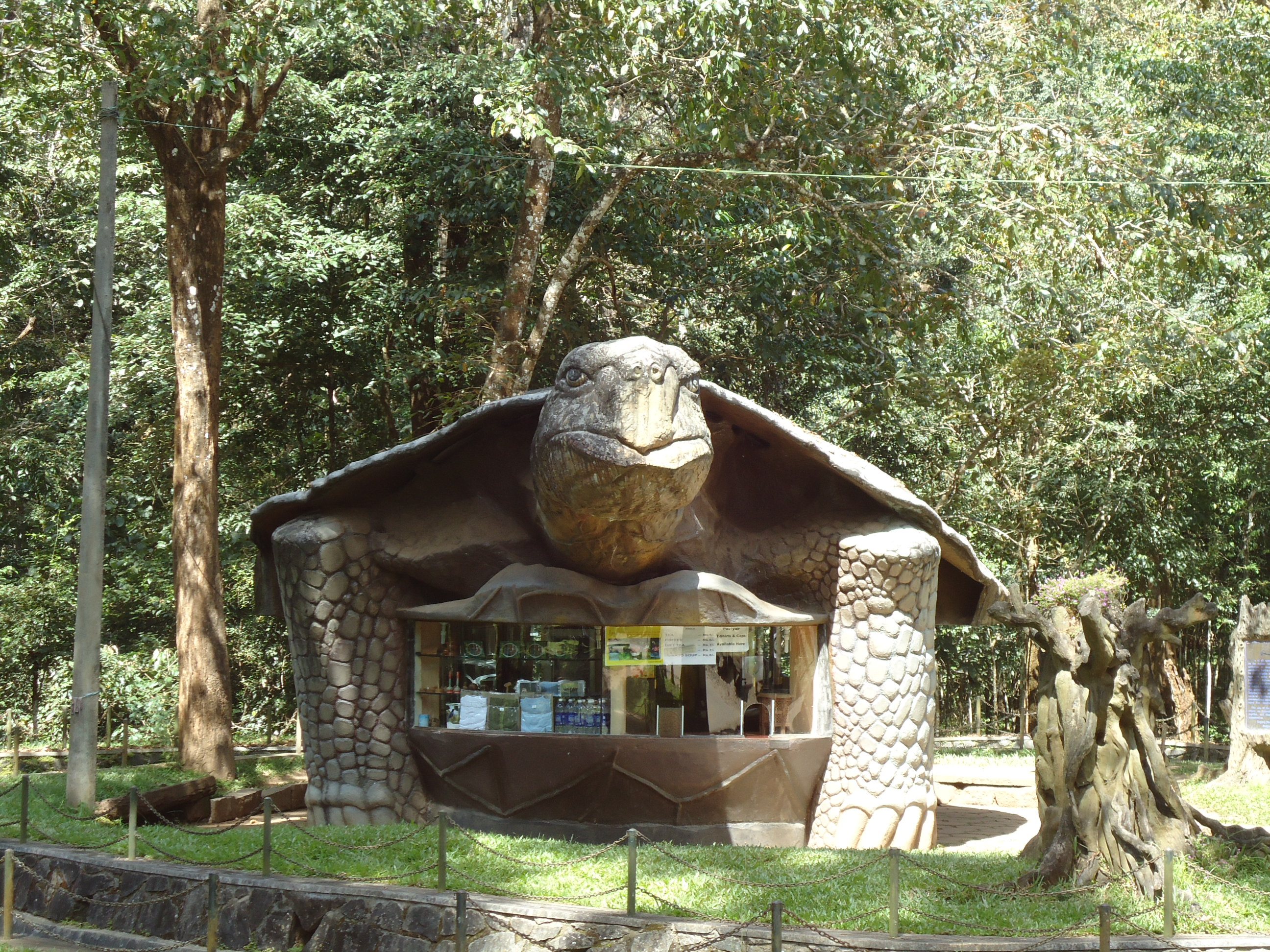 This media file is uploaded with Malayalam loves Wikimedia event.